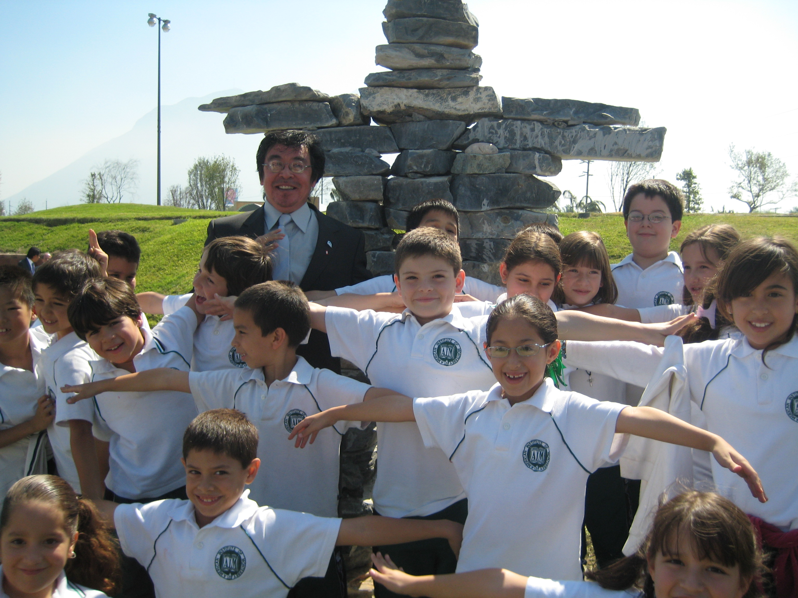 Children from the American Institute school in Monterrey mimic the pose of Inuit artist Bill Nasogaluak’s Inukshuk, unveiled October 31, 2007, in Monterrey in northern Mexico.